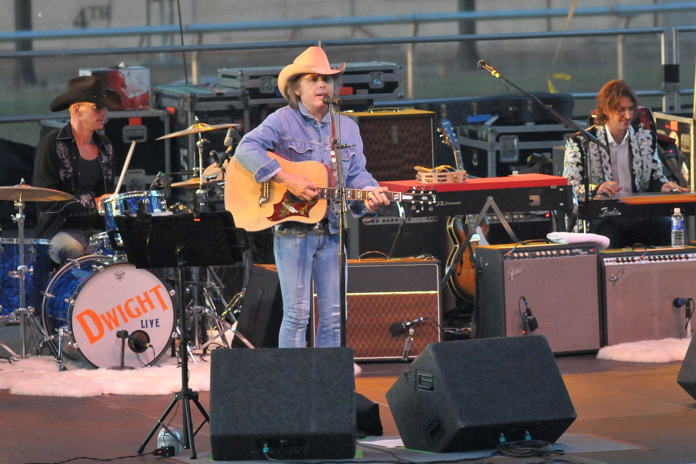 2008 San Diego County Fair